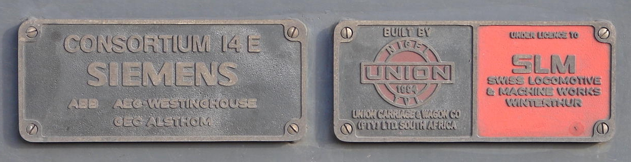 Spoornet Class 14E1 14-101 builders' plates Builder's Number: HST 16876-1-9/1994 Location: Stikland, Cape Town